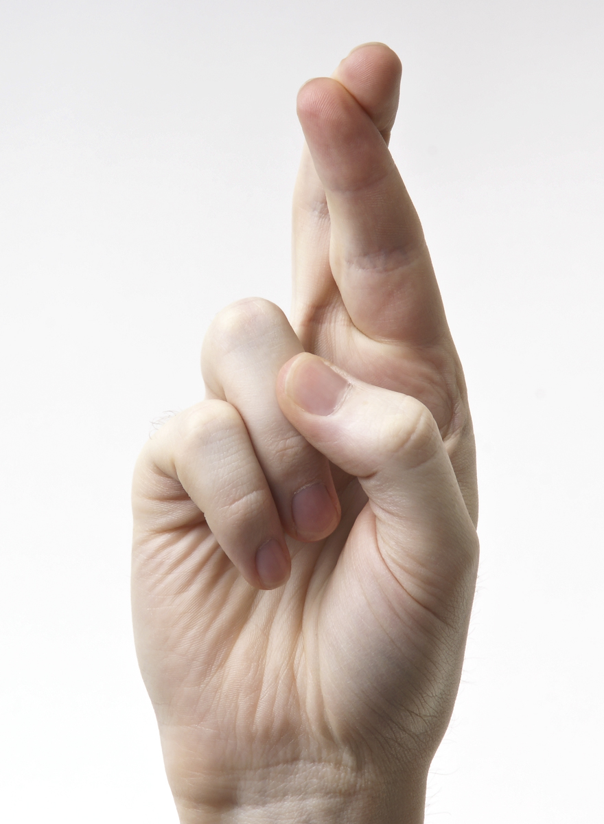 A pair of fingers crossed.